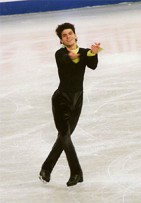 Stéphane Lambiel at the 2005 World Champioships in Moscow First upload by User:Maeva on en-wiki, 11 December 2005